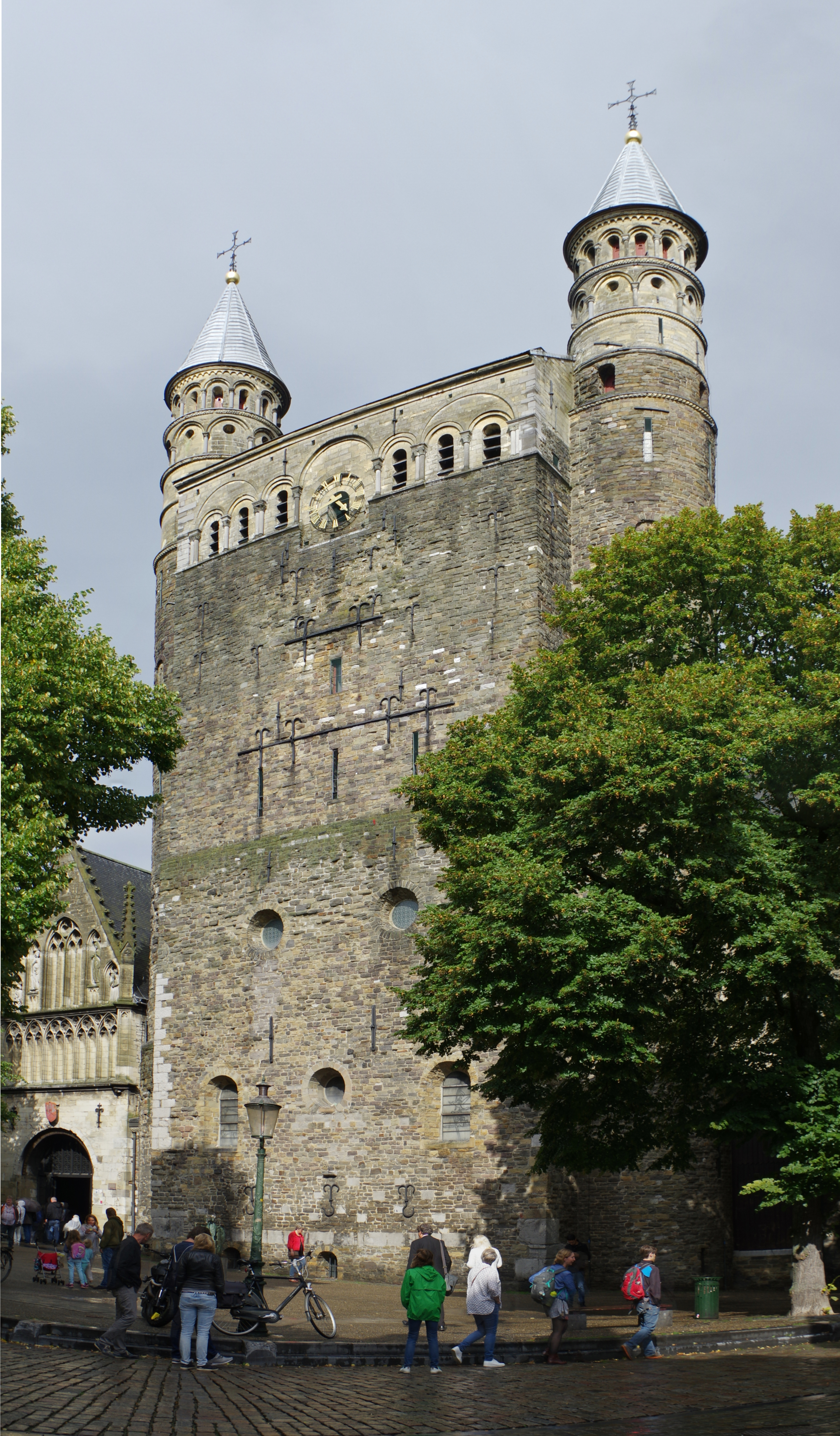 Maastricht, Church of our lady "Stella maris"